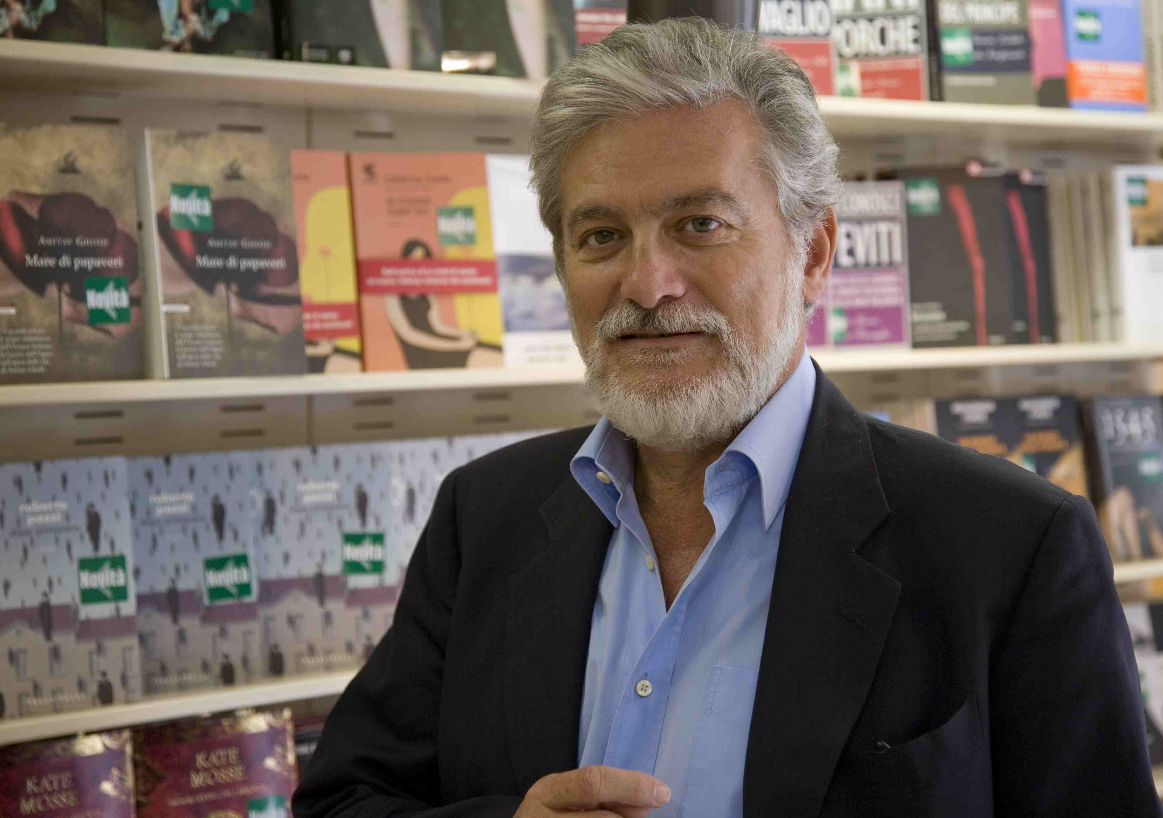 Pictures of italian writer Roberto Pazzi